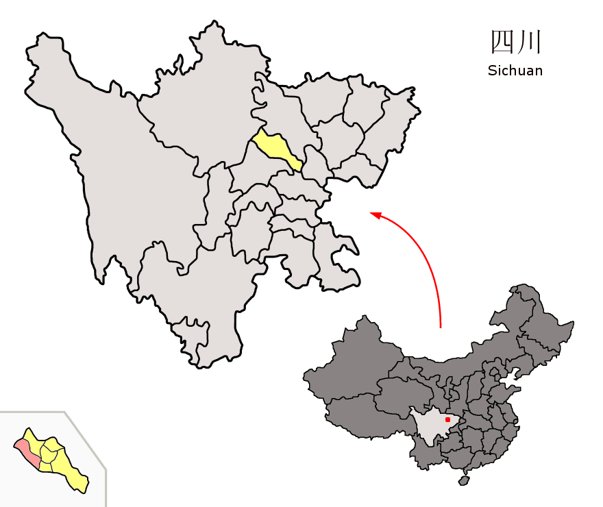 Location of Shifang City (pink) and Deyang Prefecture (yellow) within Sichuan province of China Map drawn in october 2007 using various sources, mainly : Sichuan province administrative regions GIS data: 1:1M, County level, 1990 Sichuan Counties map from